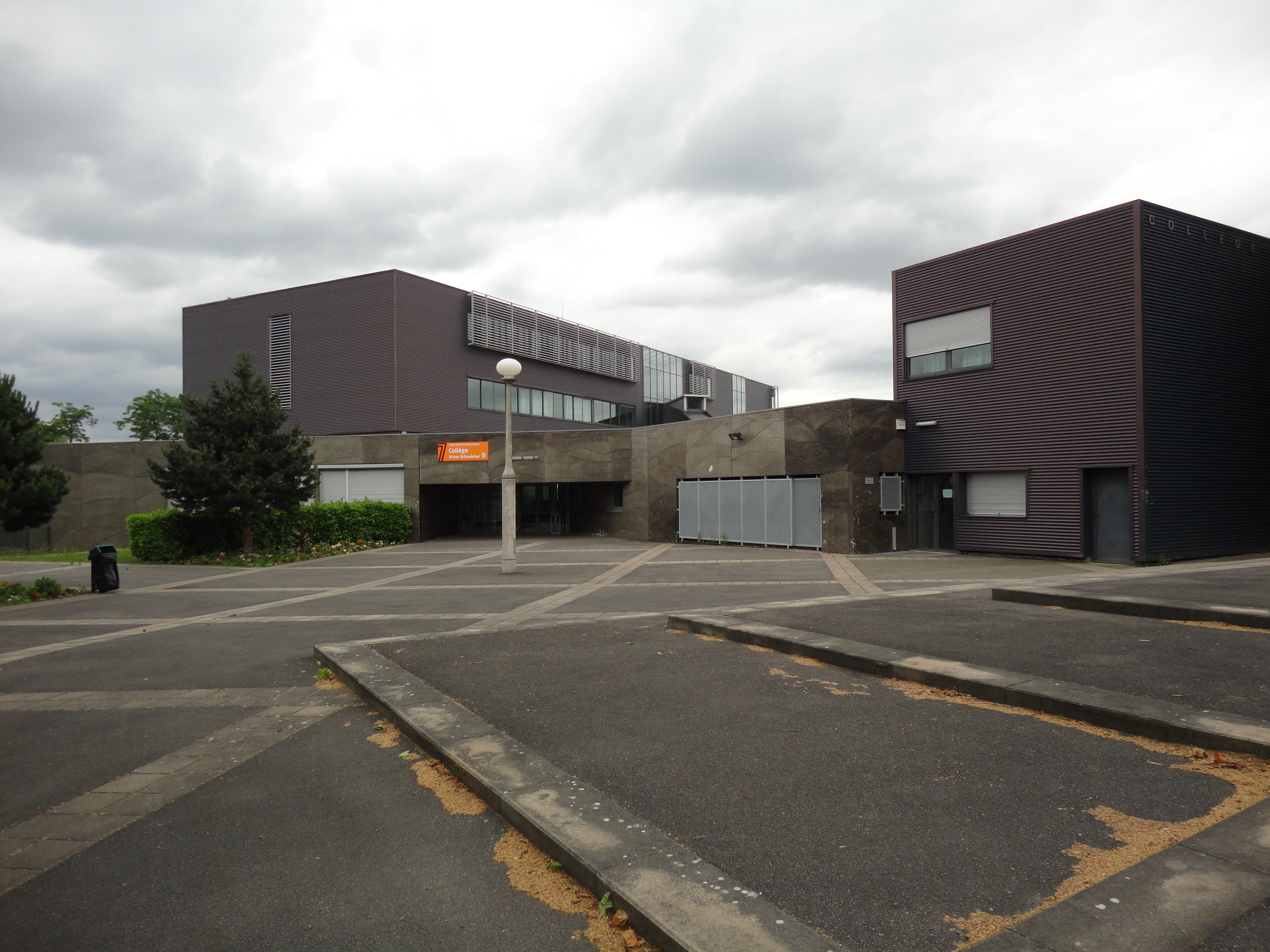 Victor Schœlcher college of Torcy